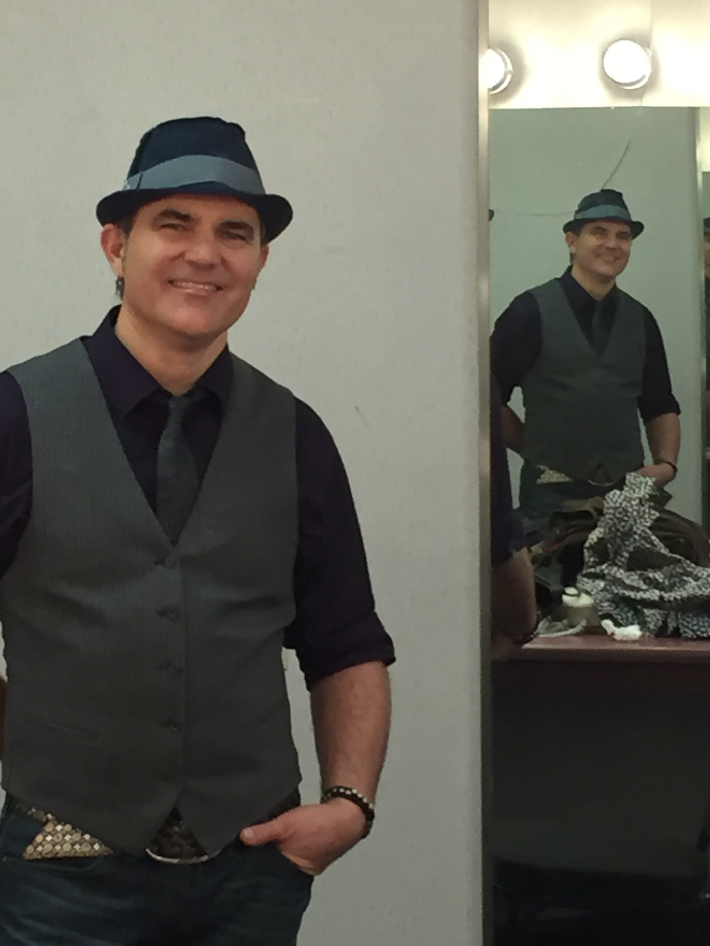 Singer/songwriter/guitarist Ken Stacey of the band Ambrosia backstage at the Lancaster Performing Arts Center on May 28, 2016